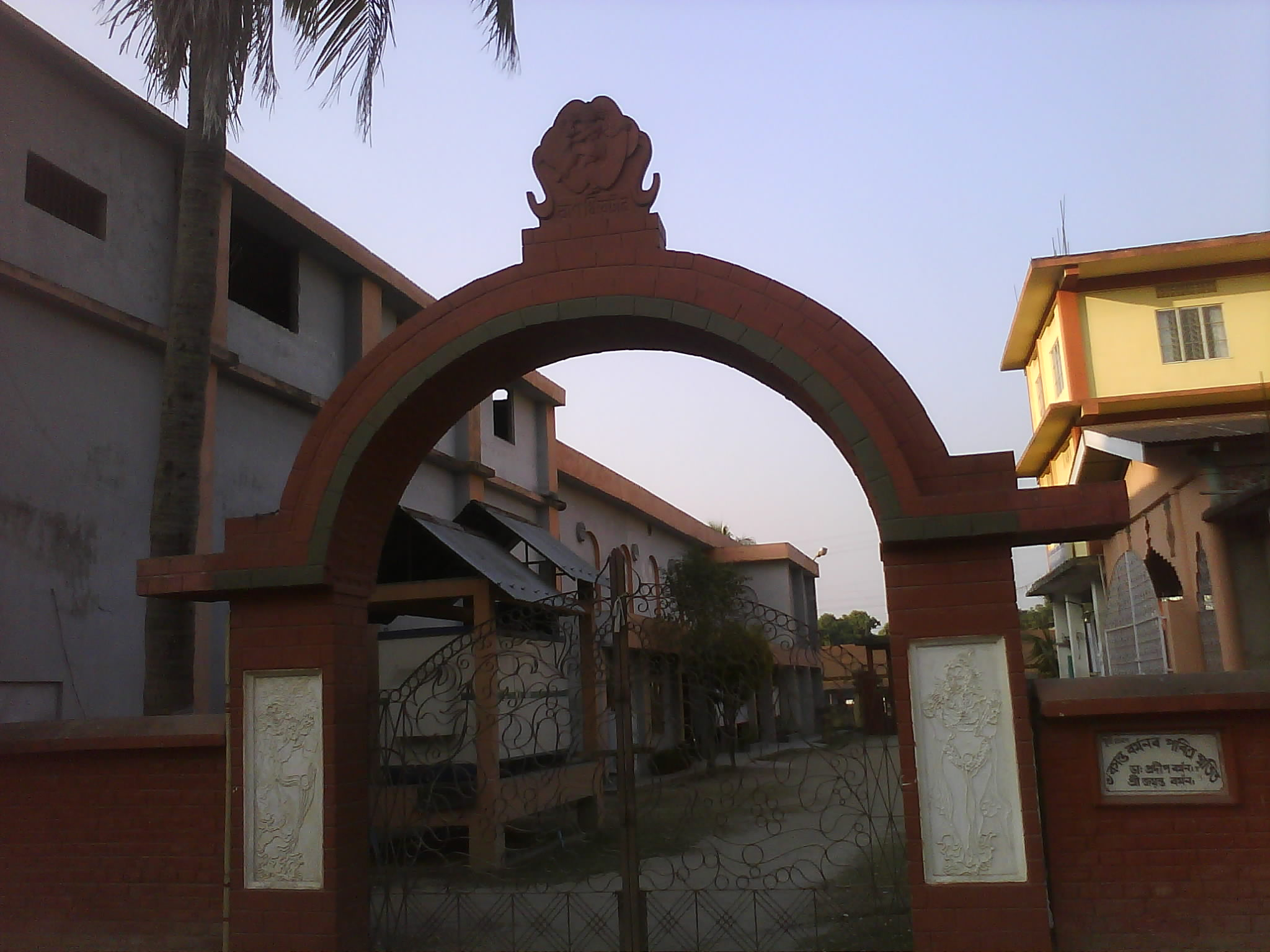 Backside of Baan Theatre Hall at Tezpur.